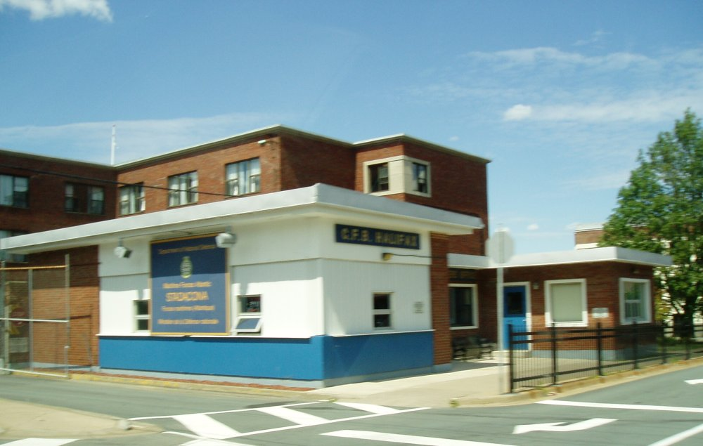 CFB Halifax, taken by SimonP